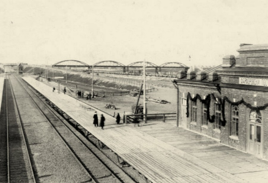 Farforovsky Post and Tsymbalinsky overpass in about 1910